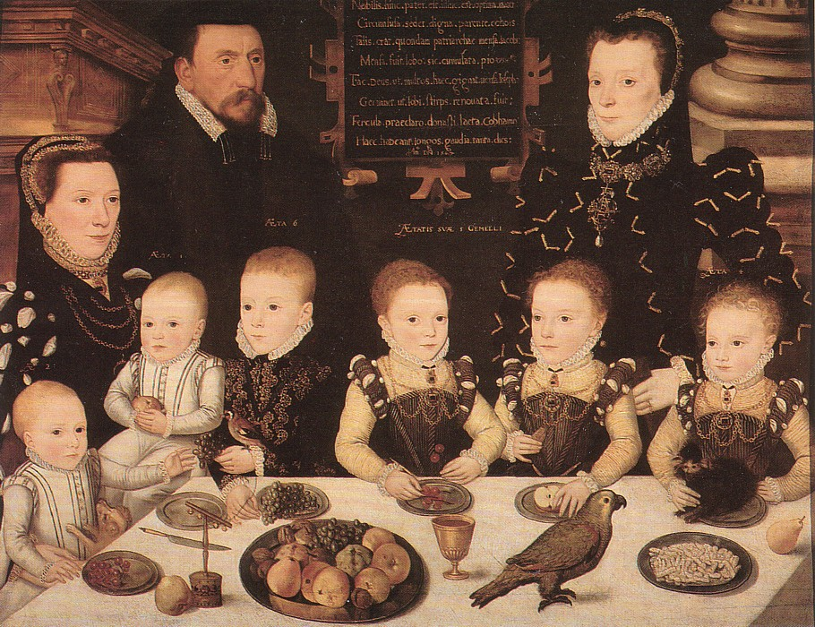 William Brooke, 10th Baron Cobham (1527-1597) was Lord Warden of the Cinque Ports, and a Member of Parliament for Hythe.